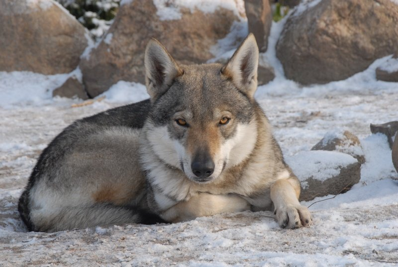 Typical female